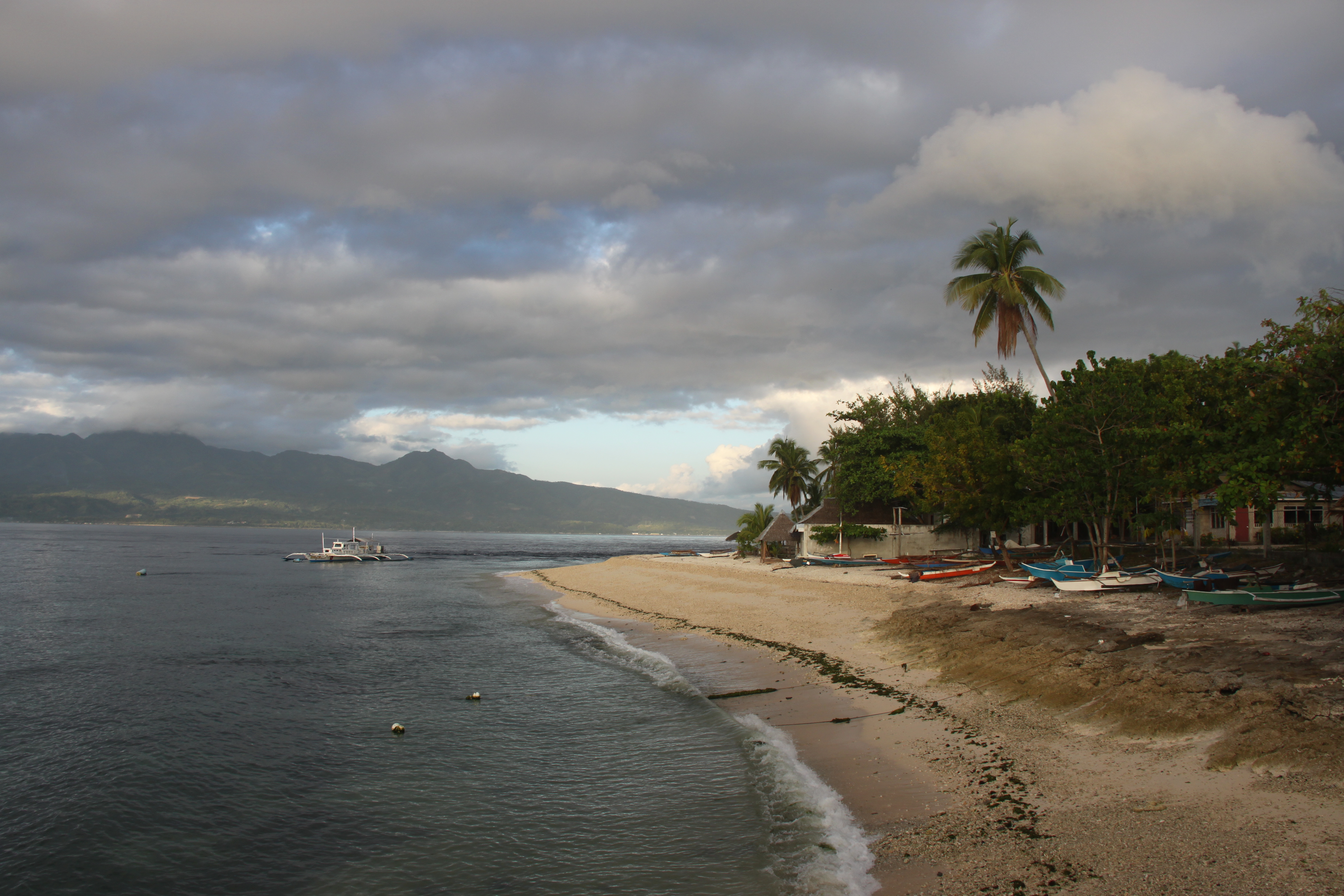 Sunrise at Santander Port, Cebu, Philippines